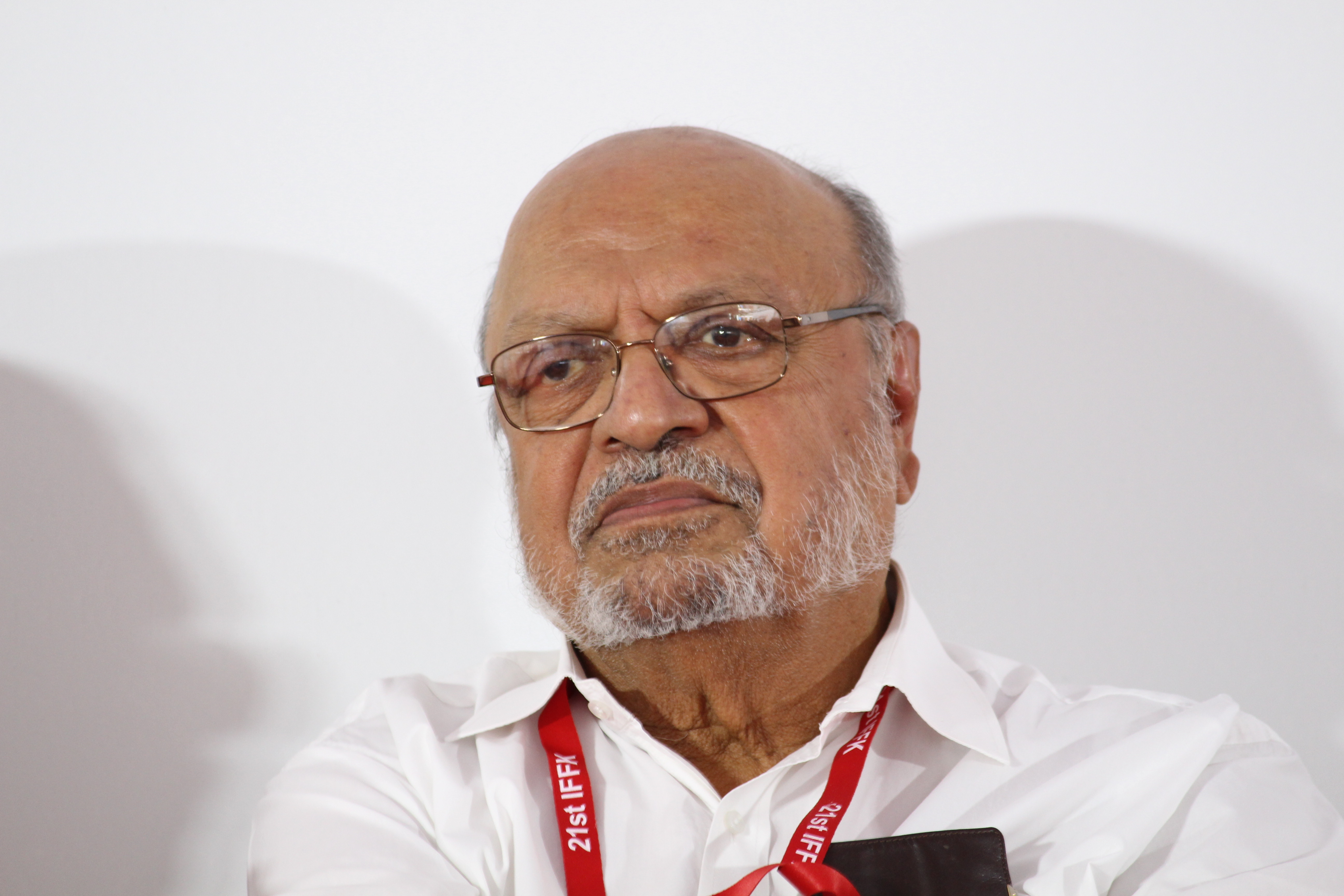 Shyam Benegal, Indian director and screenwriter at International Film Festival of Kerala 2016